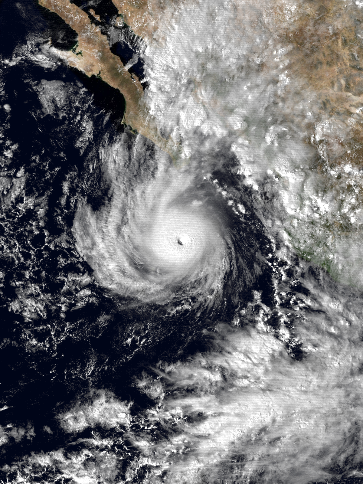 Hurricane Tico on October 18, 1983